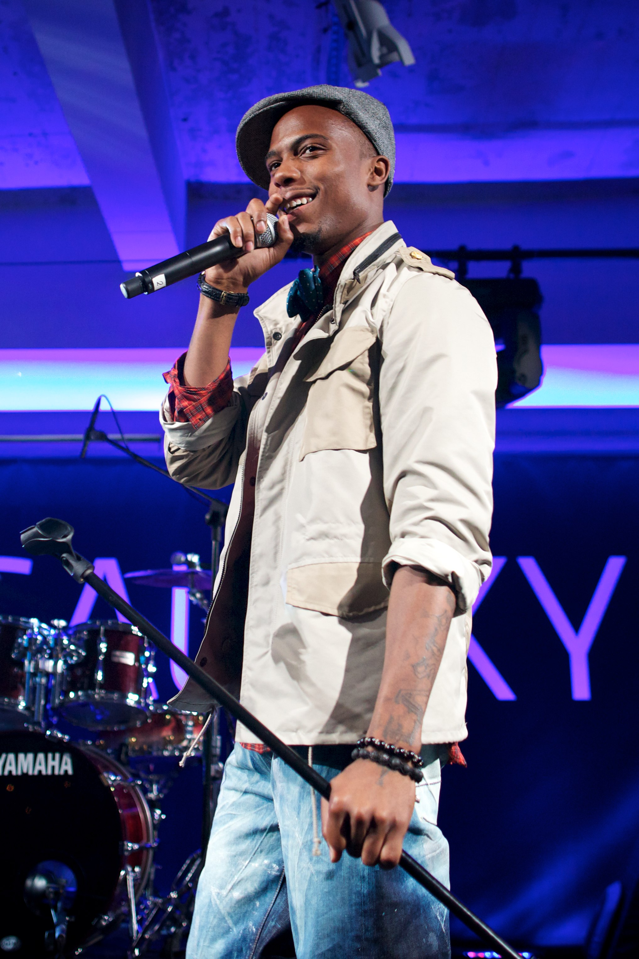 B.o.B performing at the Samsung Galaxy S Media Event on June 29, 2010